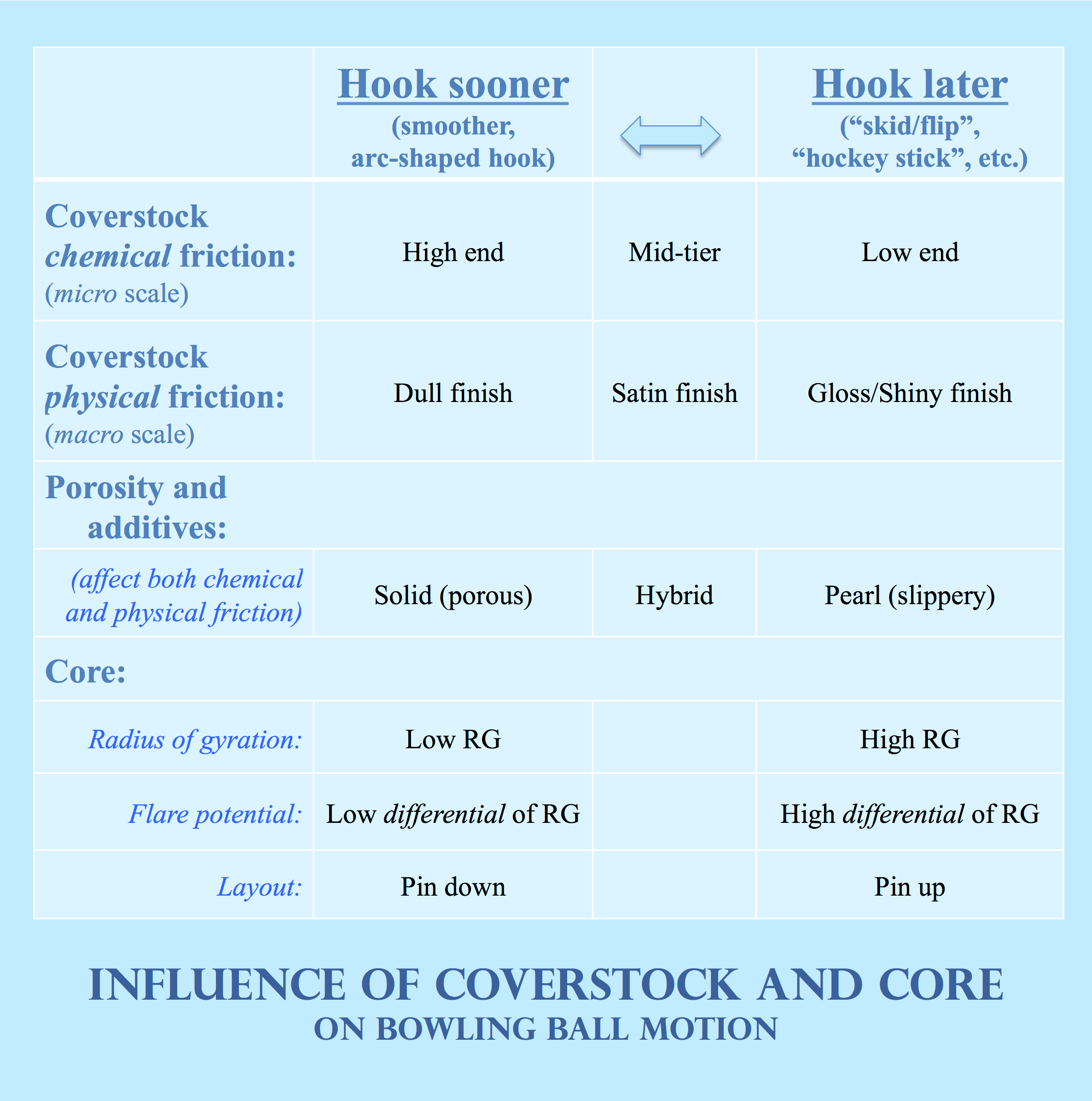 Chart illustrating various influences on the motion of bowling balls. Chart generated in Microsoft Powerpoint, saved as PDF to minimize pixellation of text, and exported to PNG. Chart content is based on descriptive content from the following reference: "Chapter 13, "Create a Bowler's Took Kit" in (July 15, 2018) Bowling Beyond the Basics: What's Really Happening on the Lanes, and What You Can Do about It, BowlSmart ISBN: 978-1 73 241000 8. A lesser amount of chart content was present in: Stremmel, Neil; Ridenour, Paul; Stervenz, Scott. Identifying the Critical Factors That Contribute to Bowling Ball Motion on a Bowling Lane. United States Bowling Congress (2008). Archived from the original on June 3, 2012. Conceptually related images: 20190105 Influence of delivery characteristics on ball motion 20190310 Influence of lane characteristics on ball motion